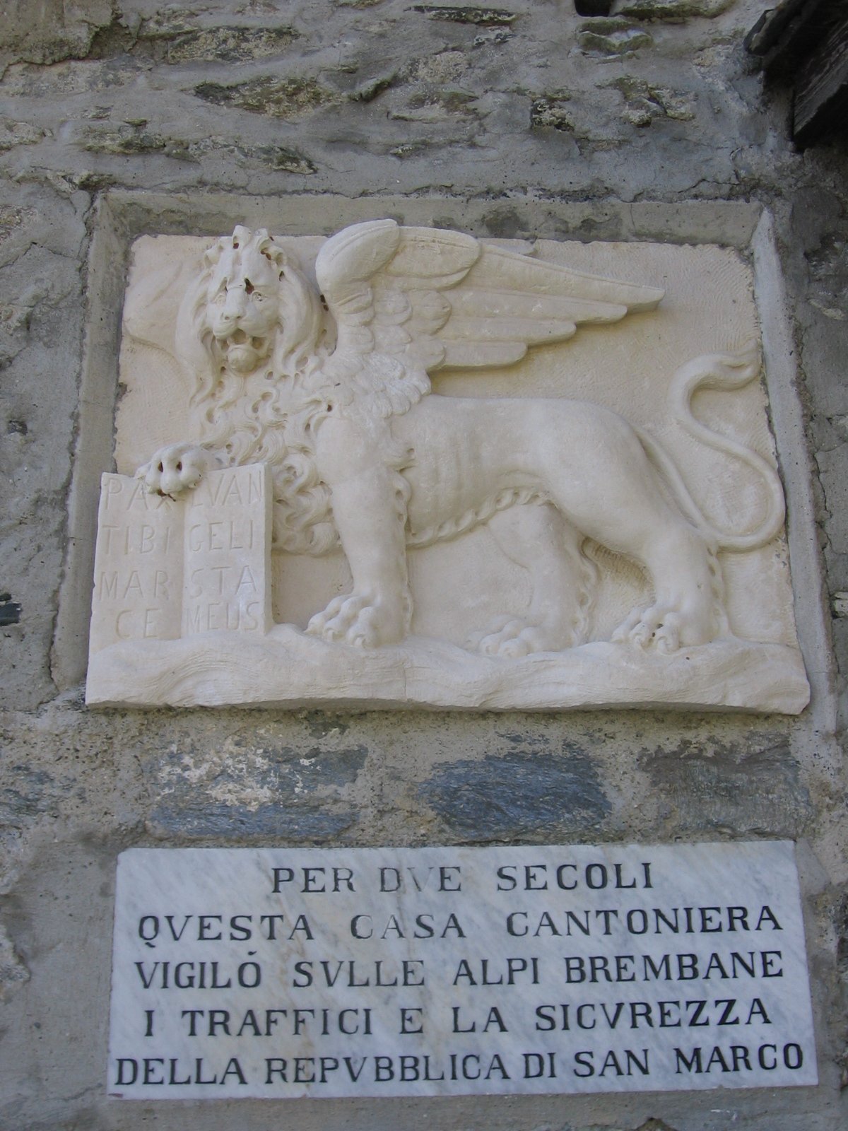 Mezzoldo, Bergamo, Italy PER DVE SECOLI QVESTA CASA CANTONIERA VIGILO' SVLLE ALPI BREMBANE I TRAFFICI E LA SICUREZZA DELLA REPVBBLICA DI SAN MARCO